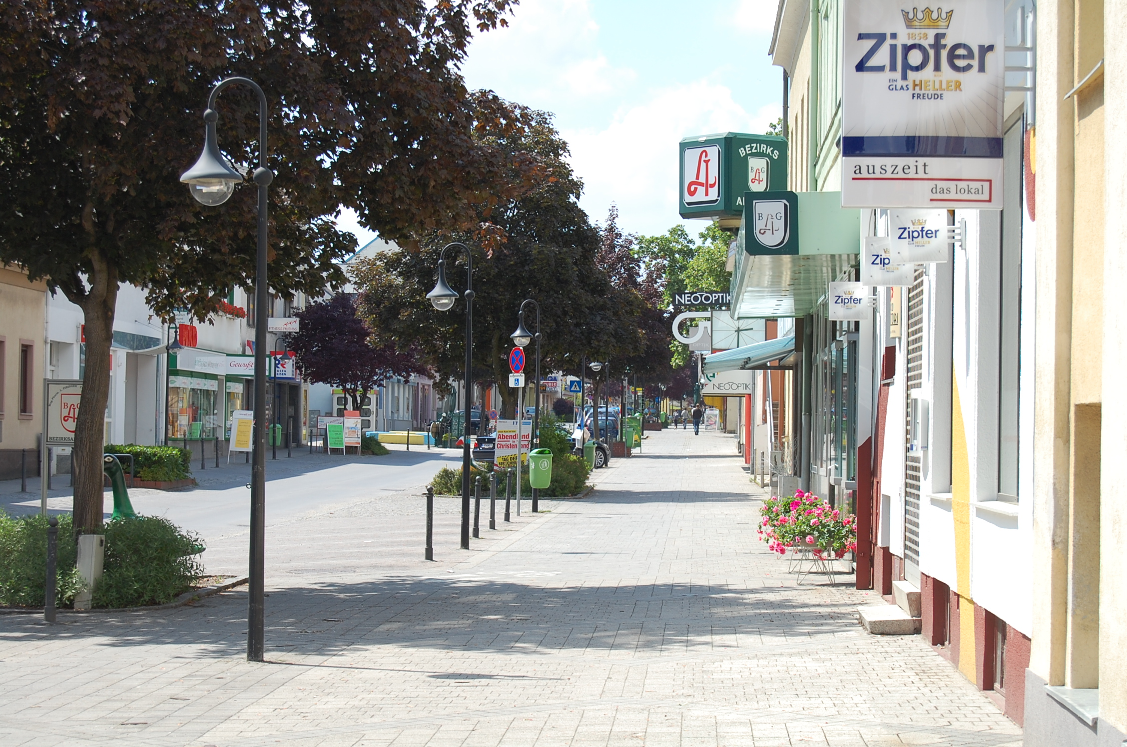 Shopping street in Gänserndorf